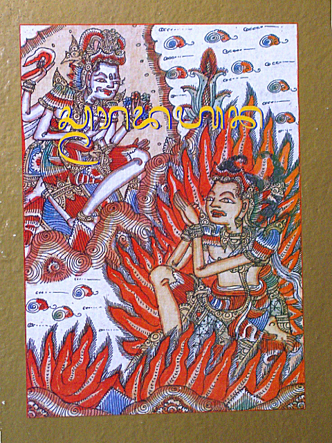 The book cover of Kakawin Smaradahana, released by the Education Council of Bali province government, public domain.